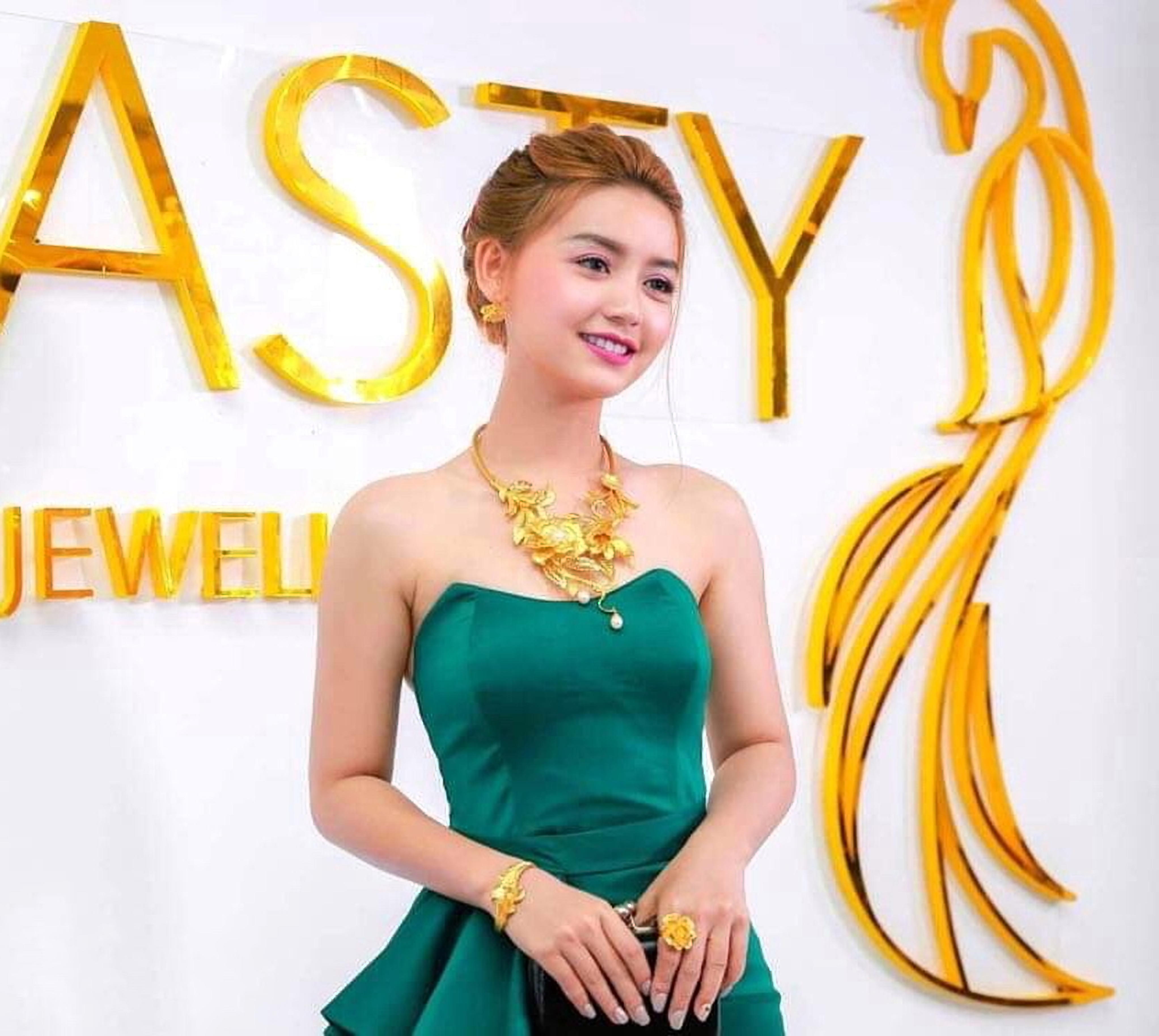 Famous actress Khin Wint Wah